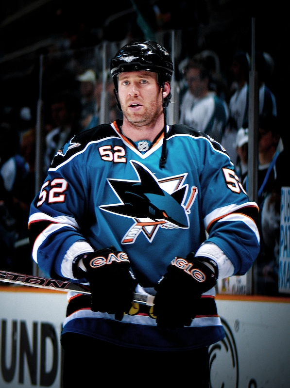 Craig Rivet